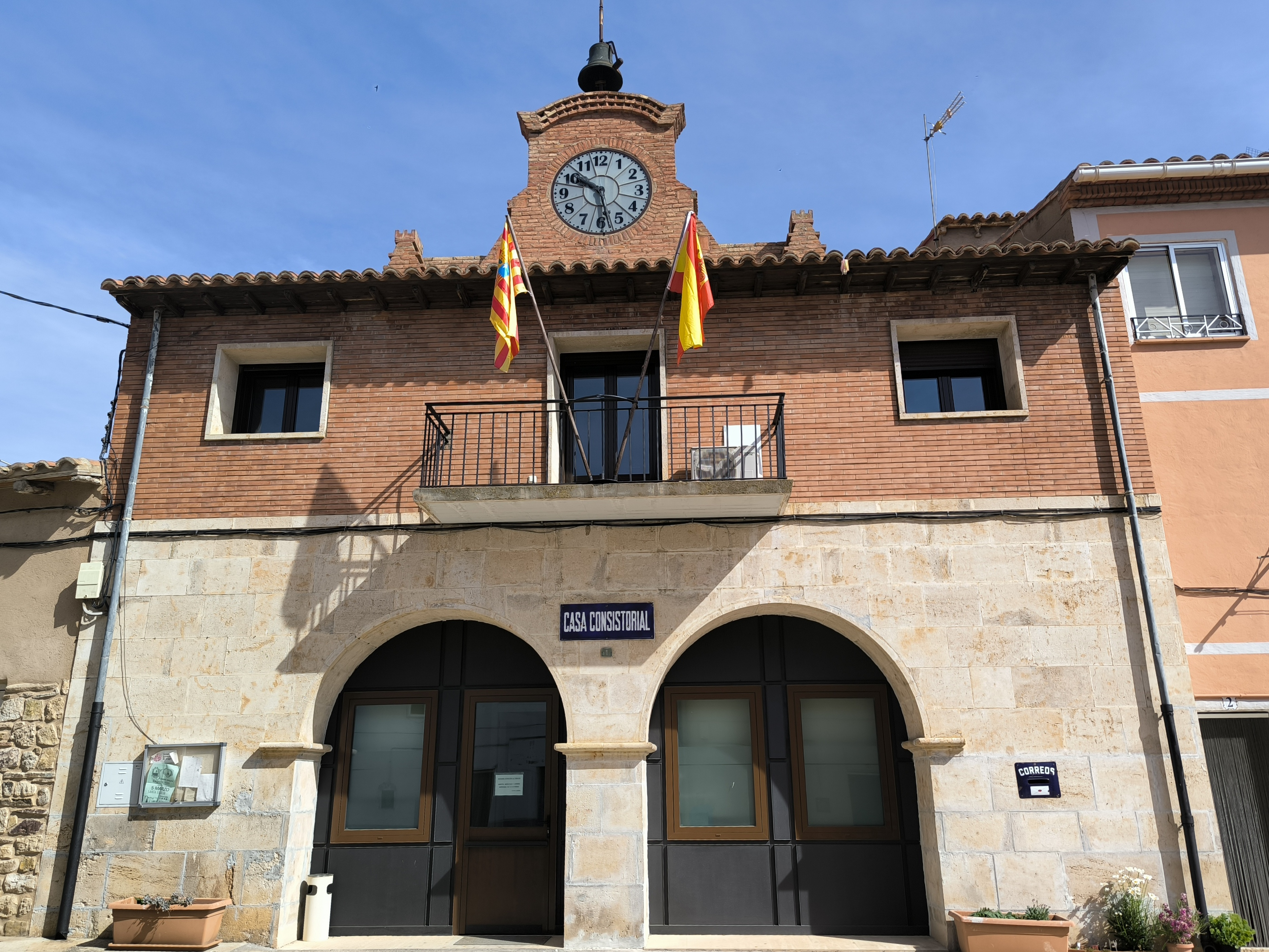 The ruins of Alba Iulia first cathedral